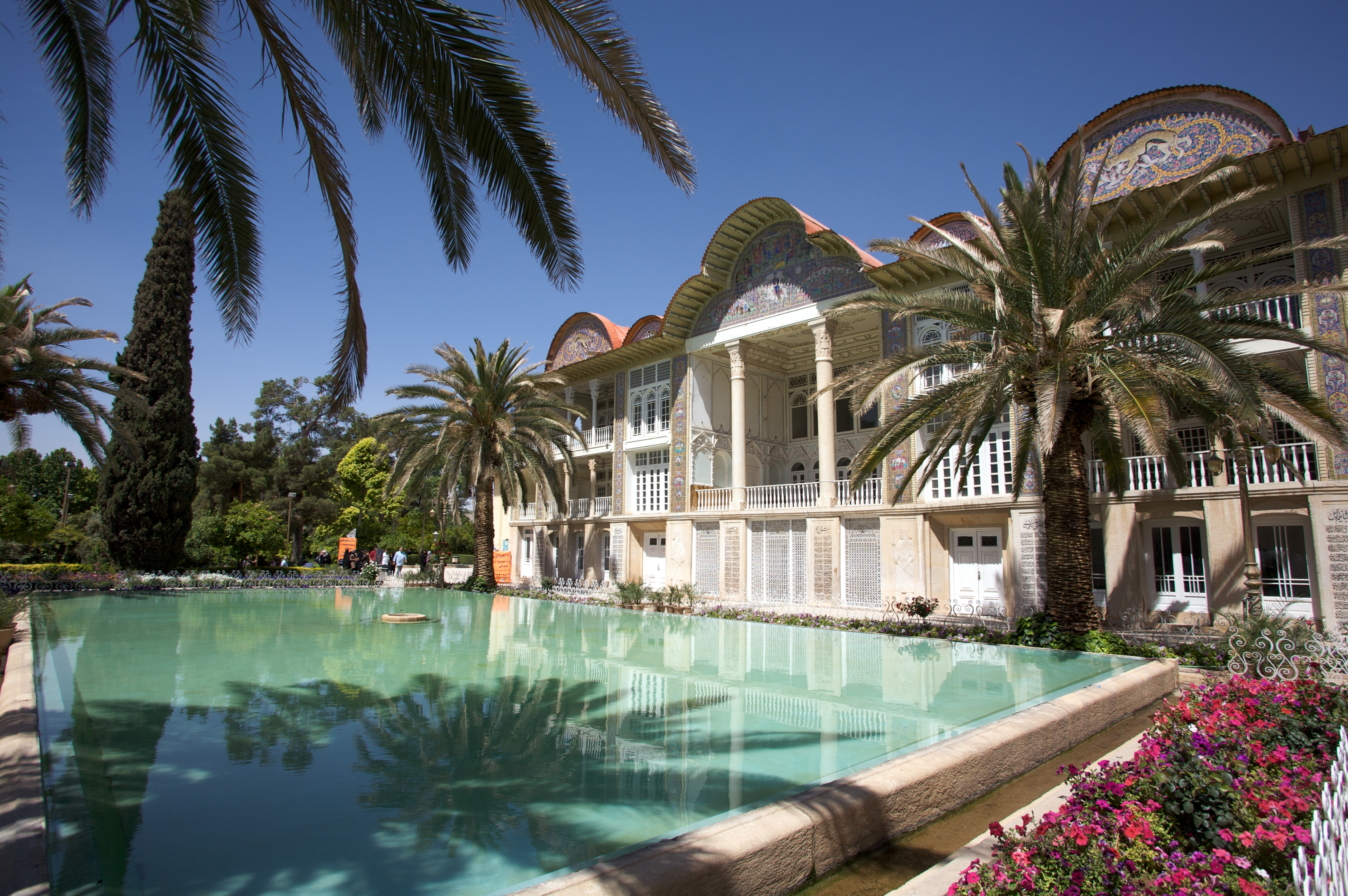 Ghavam—Qavam Garden (house) and Eram Garden, Shiraz, Iran. Part of the Shiraz Botanical Garden.